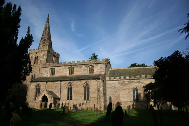 St.Mary the Virgin's church, Lowdham Largely 13th century with a 15th century spire and rebuilds of 1860 and 1890